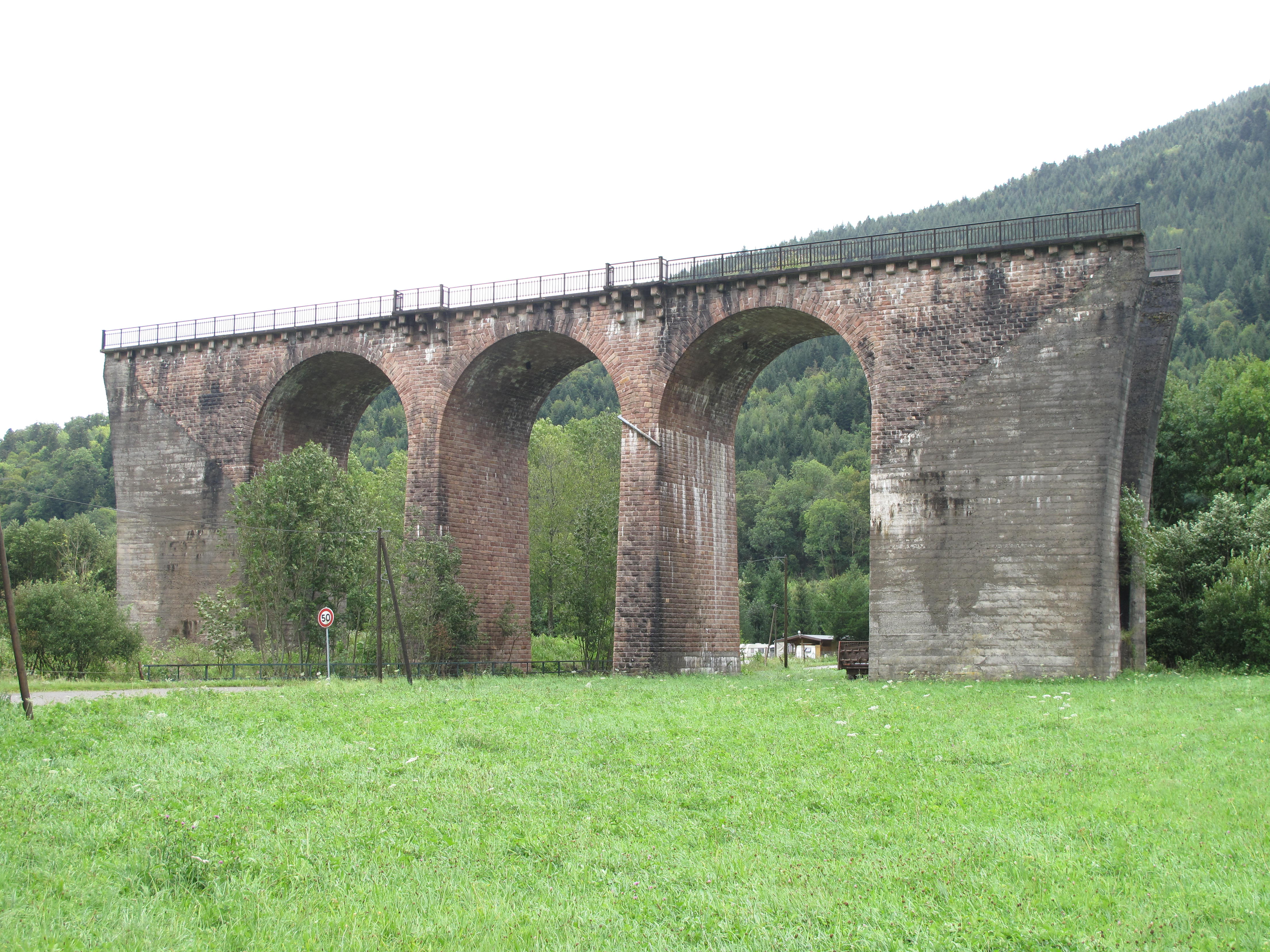 Remnants of the viaduct between Bussang and Urbes which was never achieved (Vosges, France).